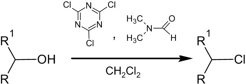 An Efficient Route to Alkyl Chlorides from Alcohols Using the Complex TCT/DMF